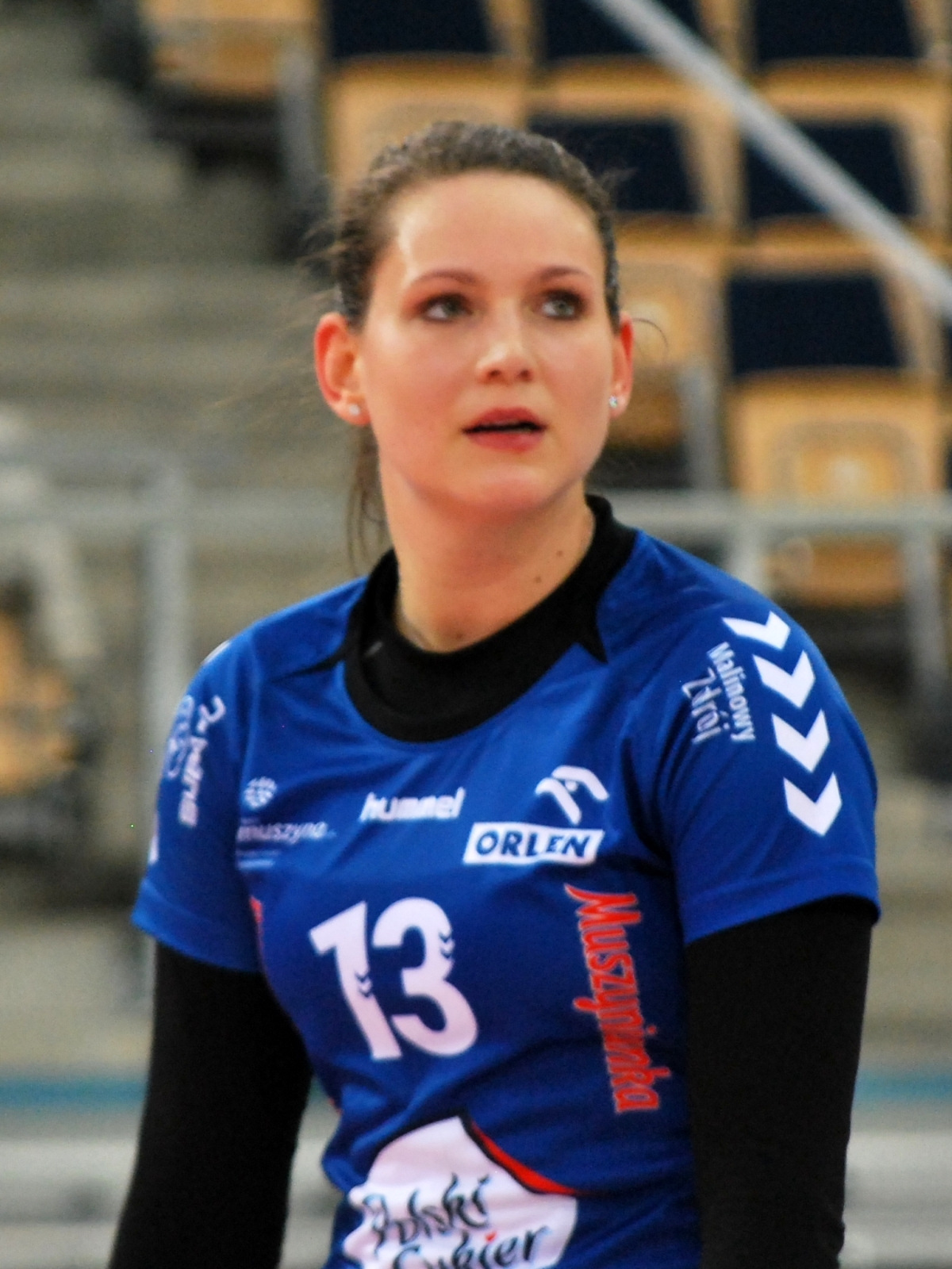 Aleksandra Wójcik, volleyball player from Poland